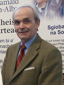 John Farquhar Munro (1934-2014) at Sabhal Mòr Ostaig in 2004. Gàidhlig: Iain Fearchar Rothach (1934-2014) aig Sabhal Mòr Ostaig ann an 2004.